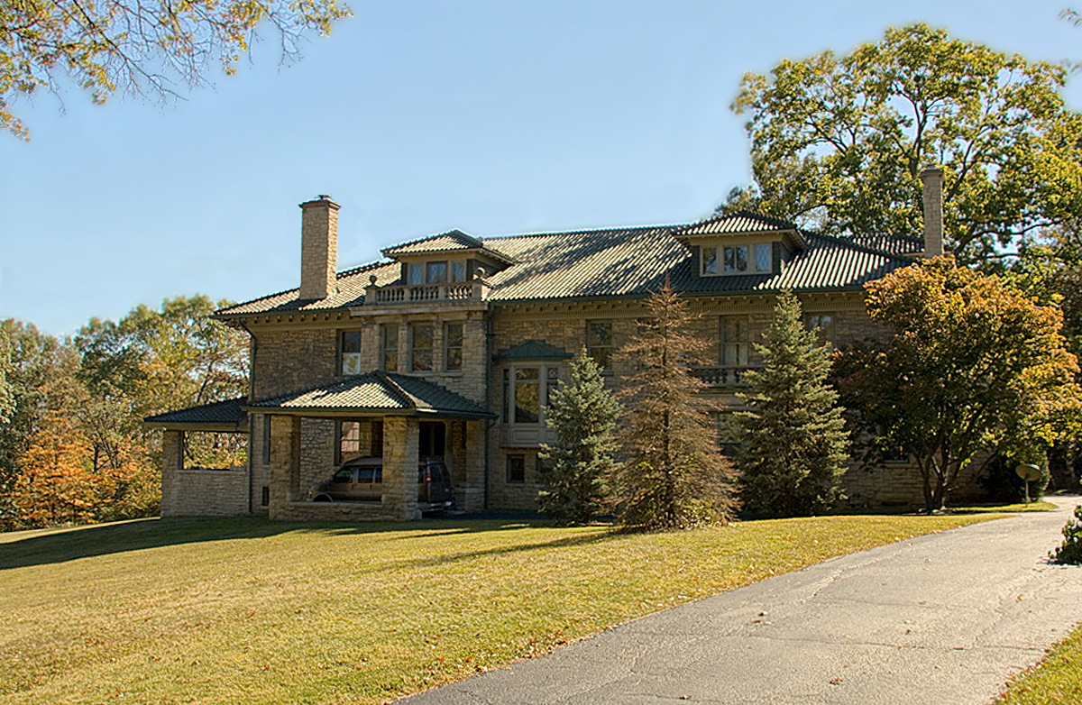 Edward Stearns house in Wyoming, OH. Photo by Greg Hume